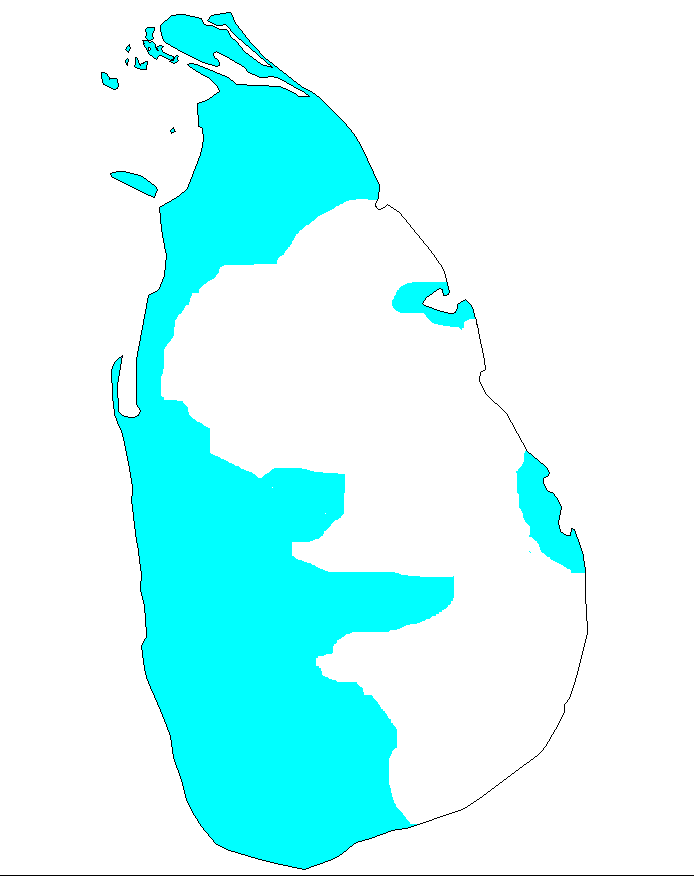 Map of the Portuguese colony of Ceilão (1505-1658) Emerson